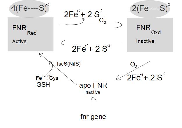 image formed using inscape